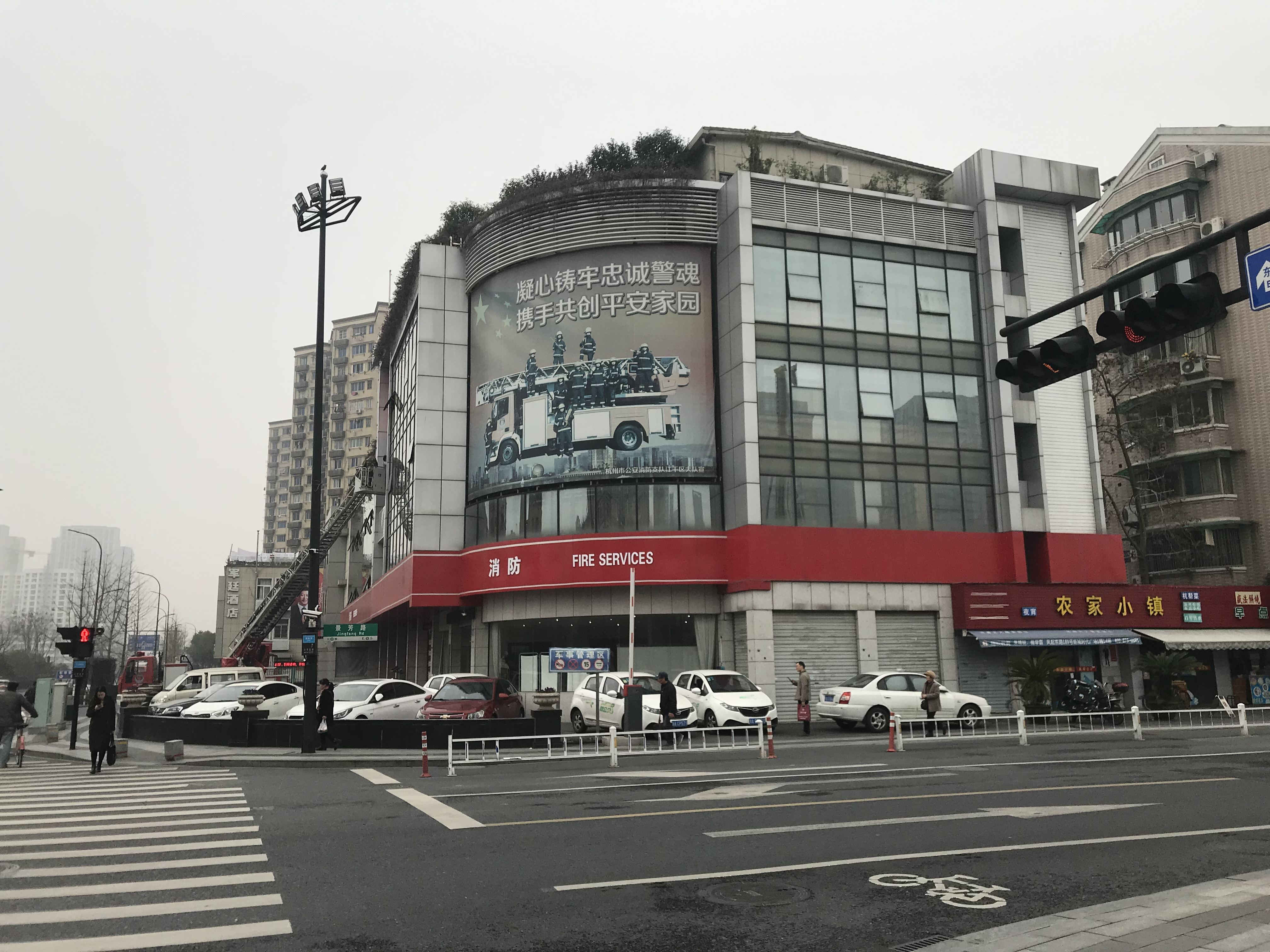 201812 Jingfang Fire Station